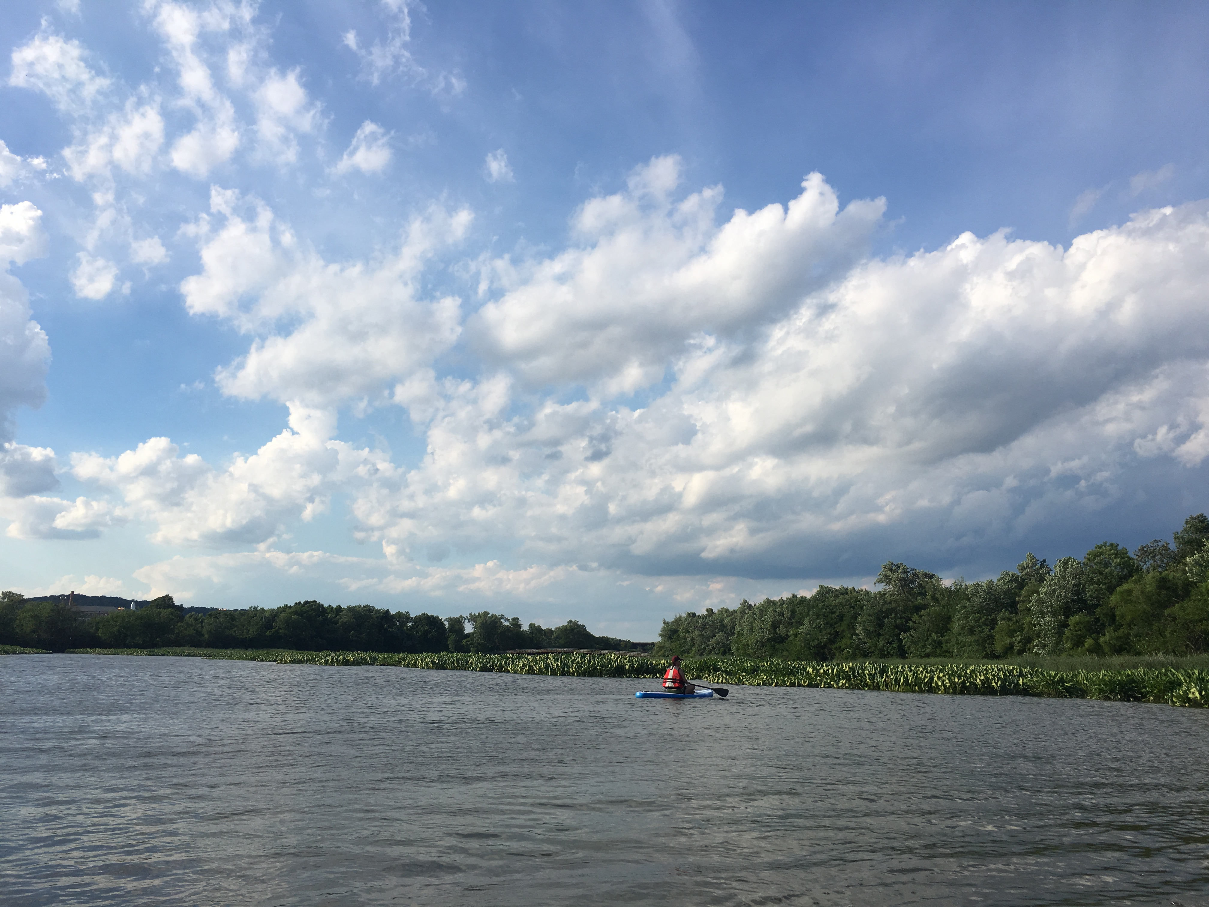 Kingman Island, Washington, DC, looking North from the Anacostia River